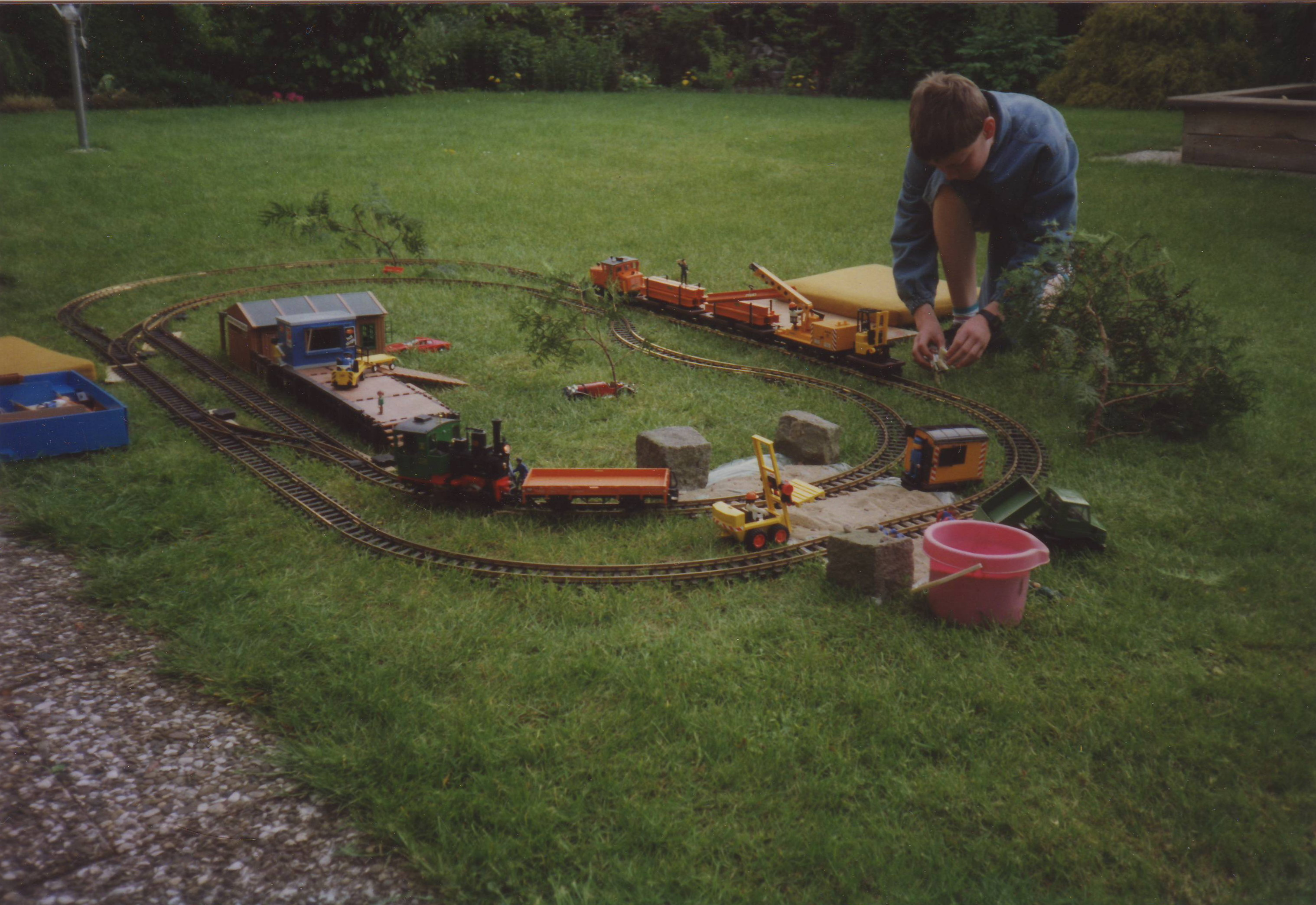 Teen playes with LGB Railway and parts of Playmobil.